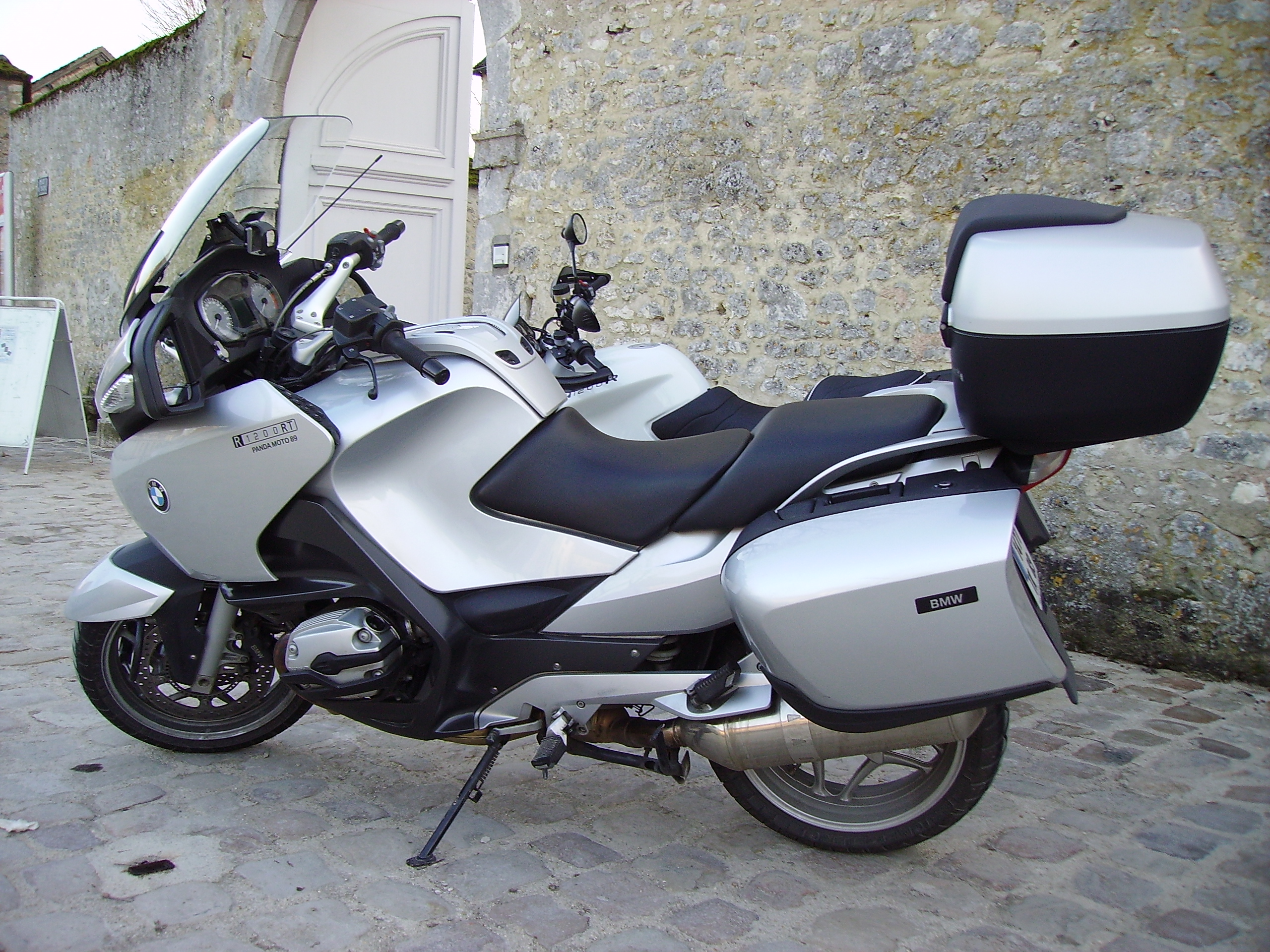 BMW R1200RT touring motorcycle with optional top box. Pictured in Provins, France